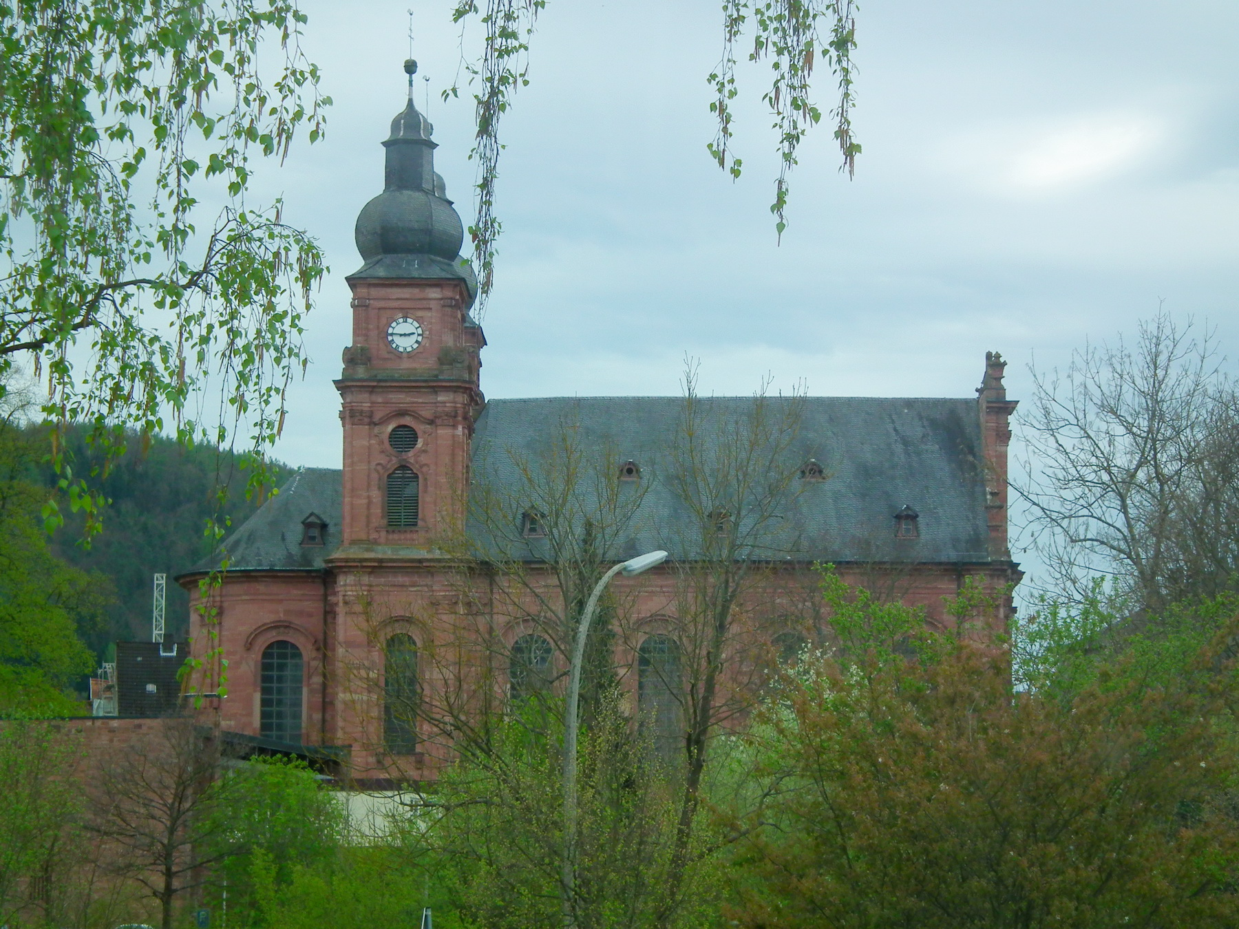 Church of St Gangulphus Native nameGangolfikircheLocationAmorbach, Lower Franconia, GermanyCoordinates49° 38′ 43.87″ N, 9° 13′ 12.47″ E